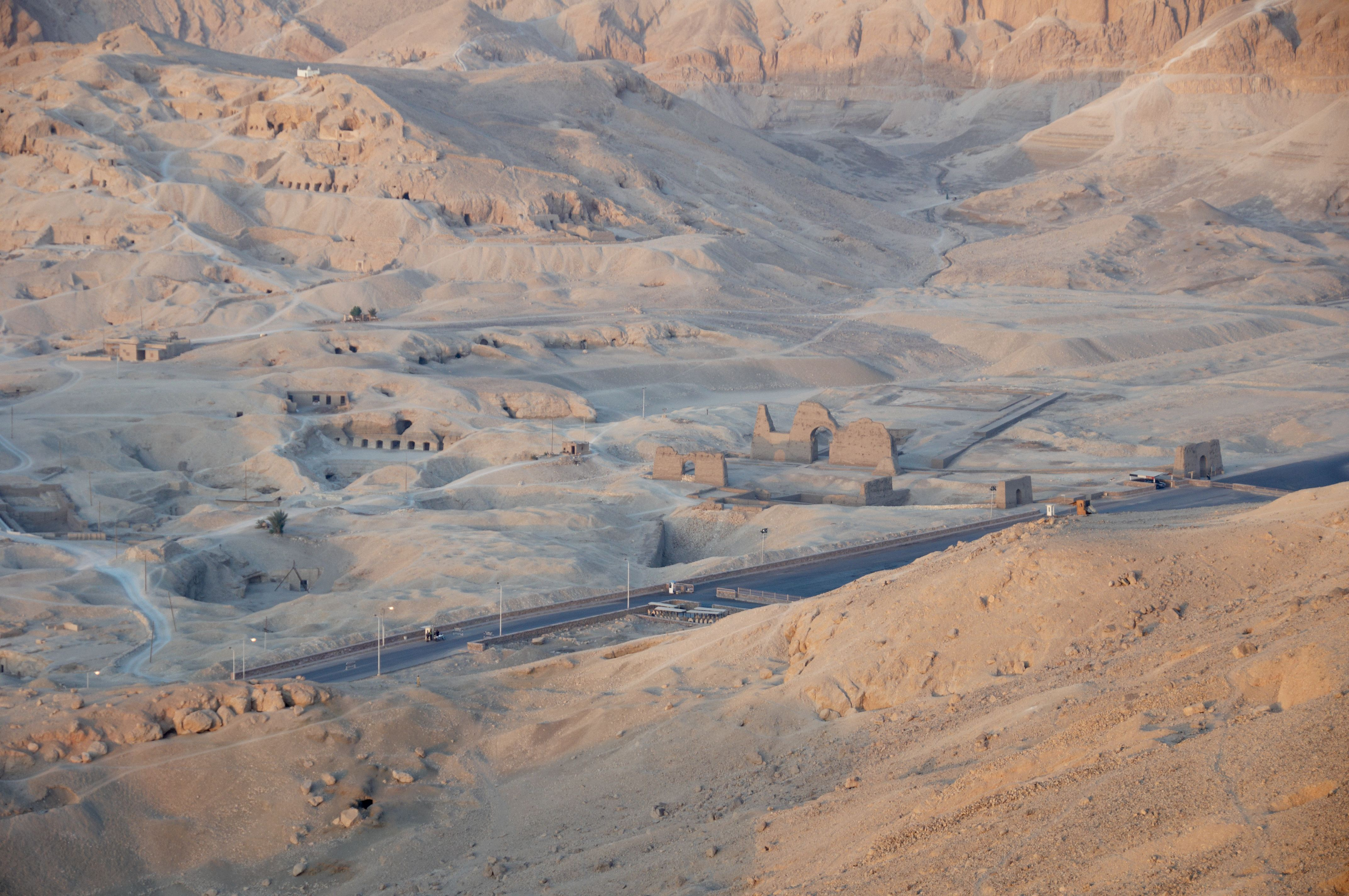 Valley of the Kings, Luxor, Egypt